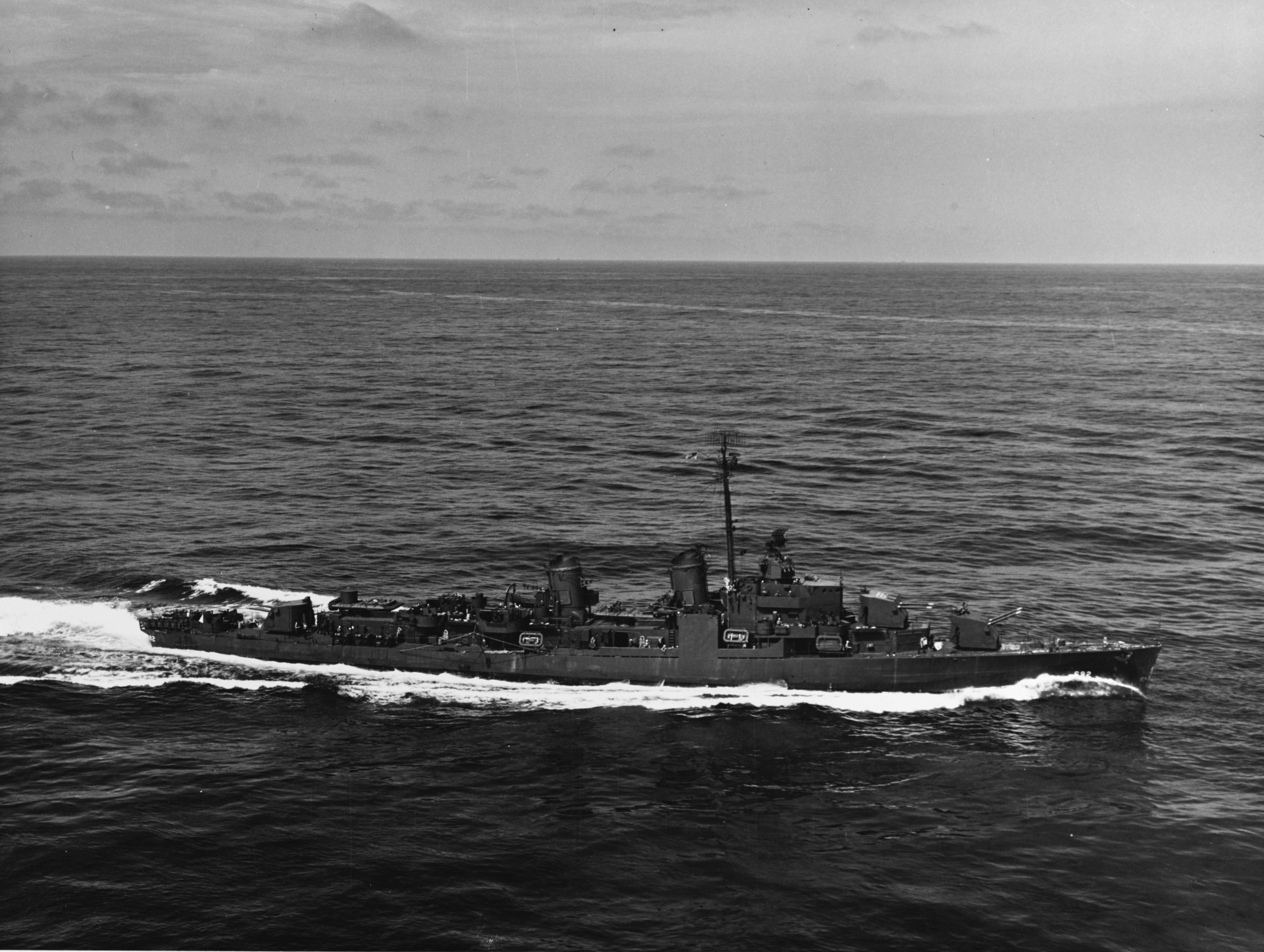 The U.S. Navy destroyer USS Allen M. Sumner (DD-692) underway in the Atlantic Ocean on 26 March 1944.